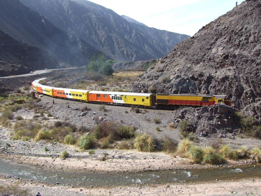 "Tren a las Nubes" (train to the clouds), Salta Province (Argentina).